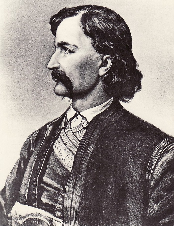 Petar Nikolajević Moler (1775 - 1816), Serbian commander and politician